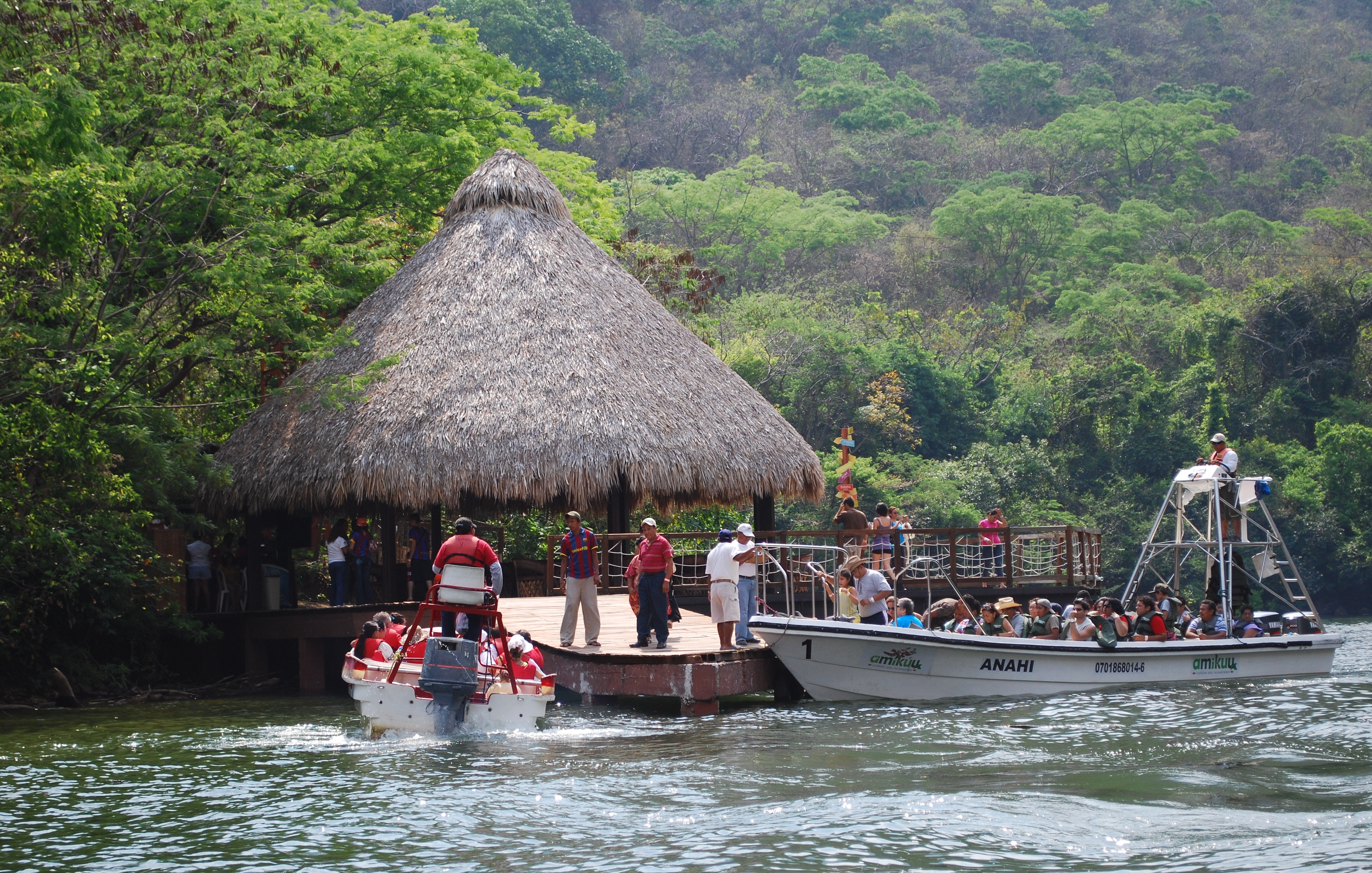 Hut and dock at a ecotourism facility in the Chicoasen Dam area, in Chiapas, Mexico